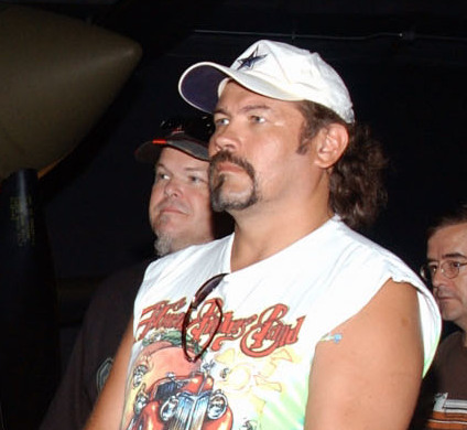 DAYTON, Ohio -- Country music singer Buddy Jewell learns about Air Force history from Museum Curator Jeff Duford in 2005. (U.S. Air Force photo)